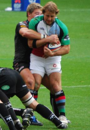 Andrew Gommarsall